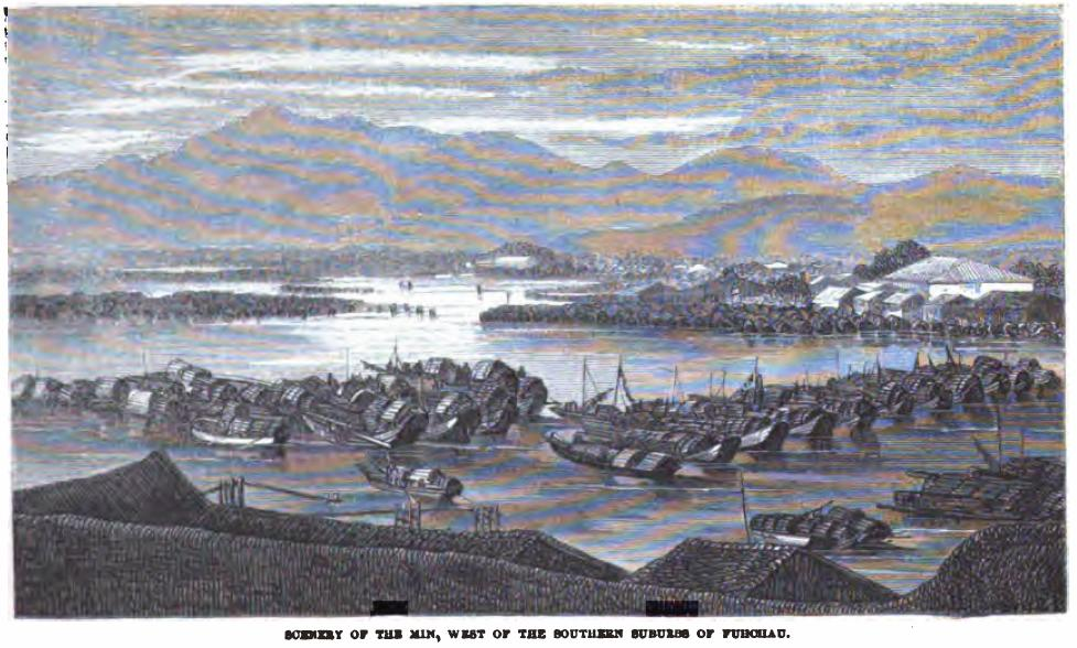 Scenery of River Min